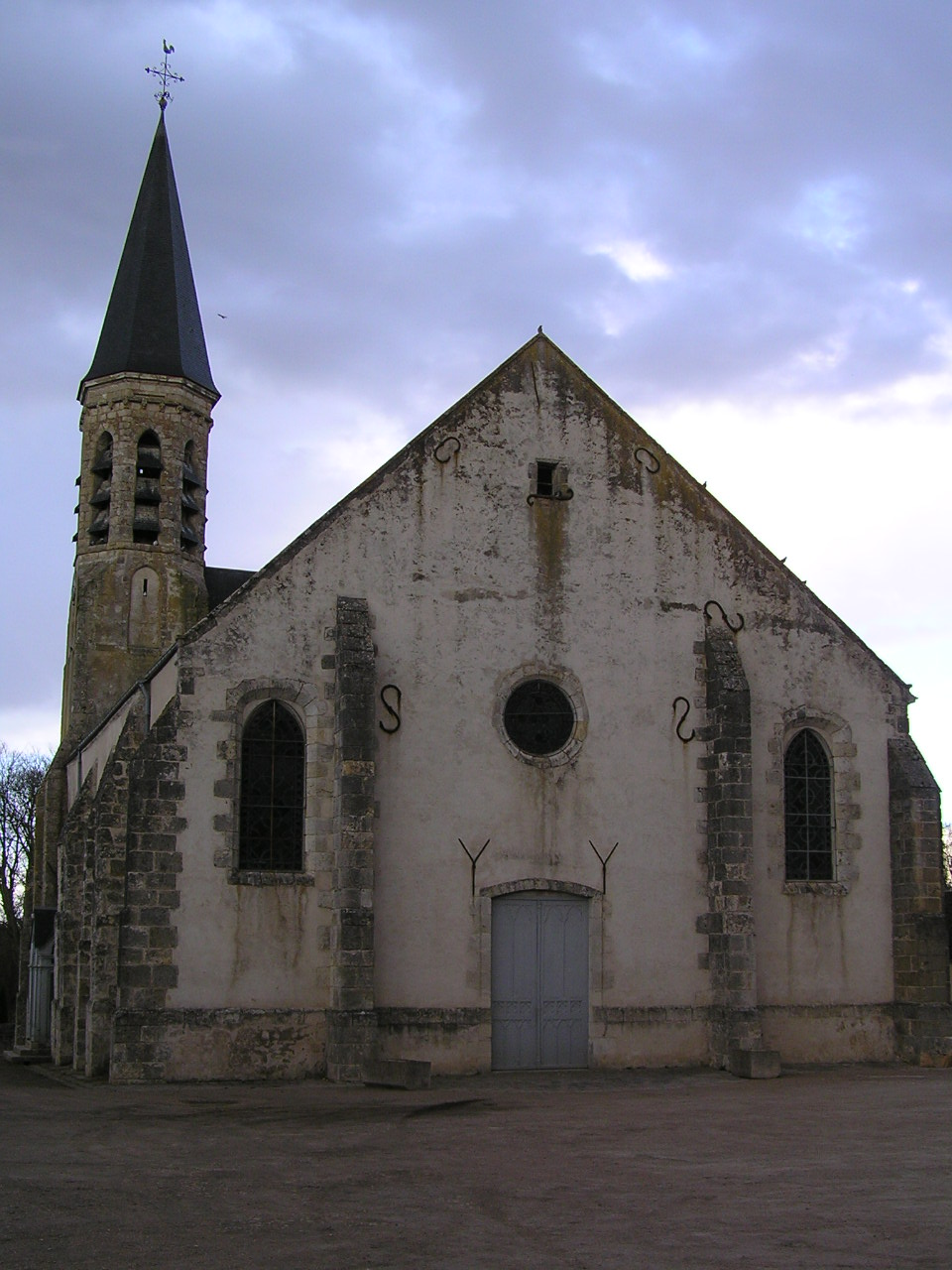 Church of Malesherbes, Loiret, France.